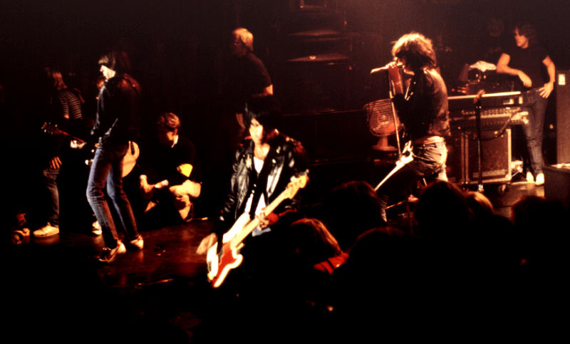 The Ramones, Chateau Neuf, Oslo, Norway